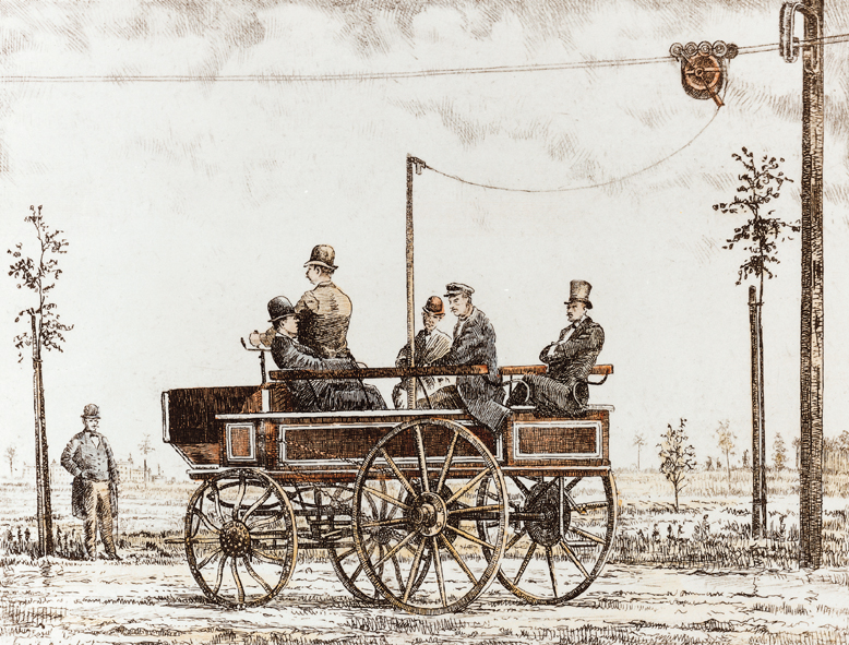 First Trolleybuss of Siemens in Berlin, Germany